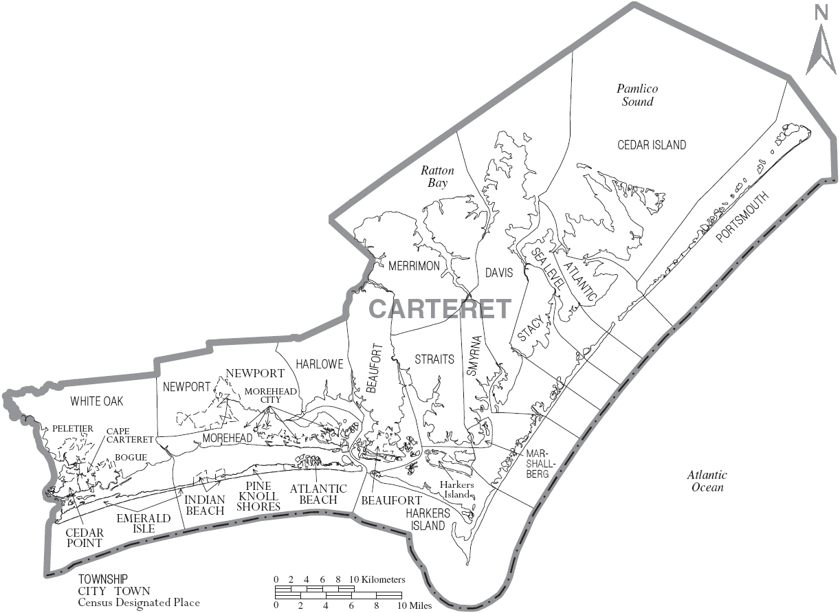 Map of Carteret County, North Carolina, United States with township and municipal boundaries